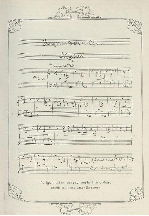 First page of the manuscript of the opera "Majas" by Màrius Mateo